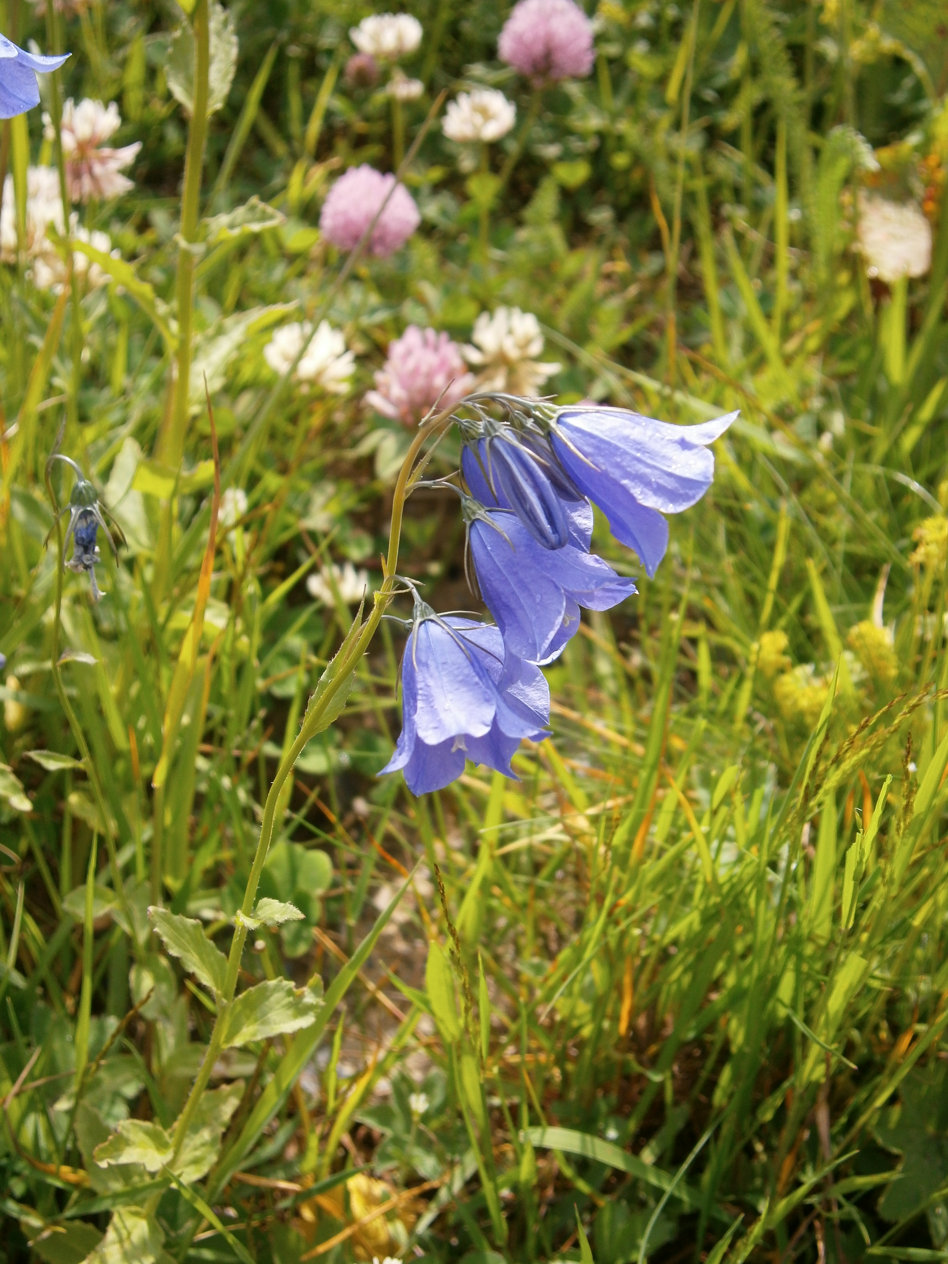 Campanula rhomboidalis